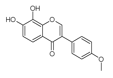 Chemical structure of retusine (isoflavone)